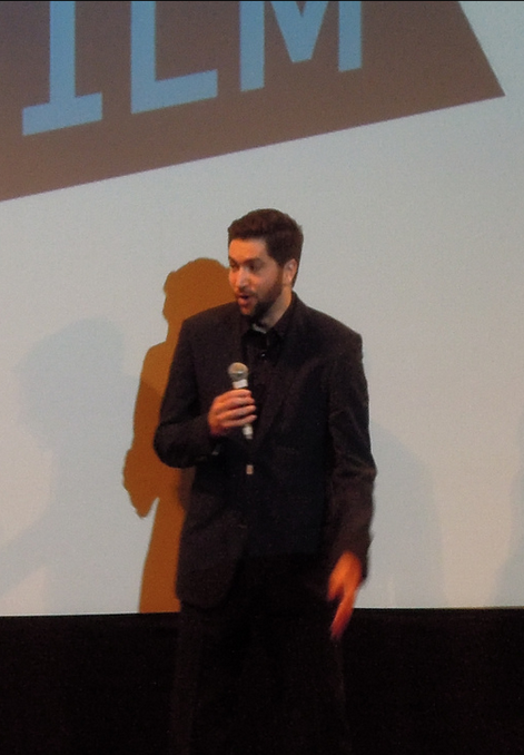 Cabin in the Woods Screening